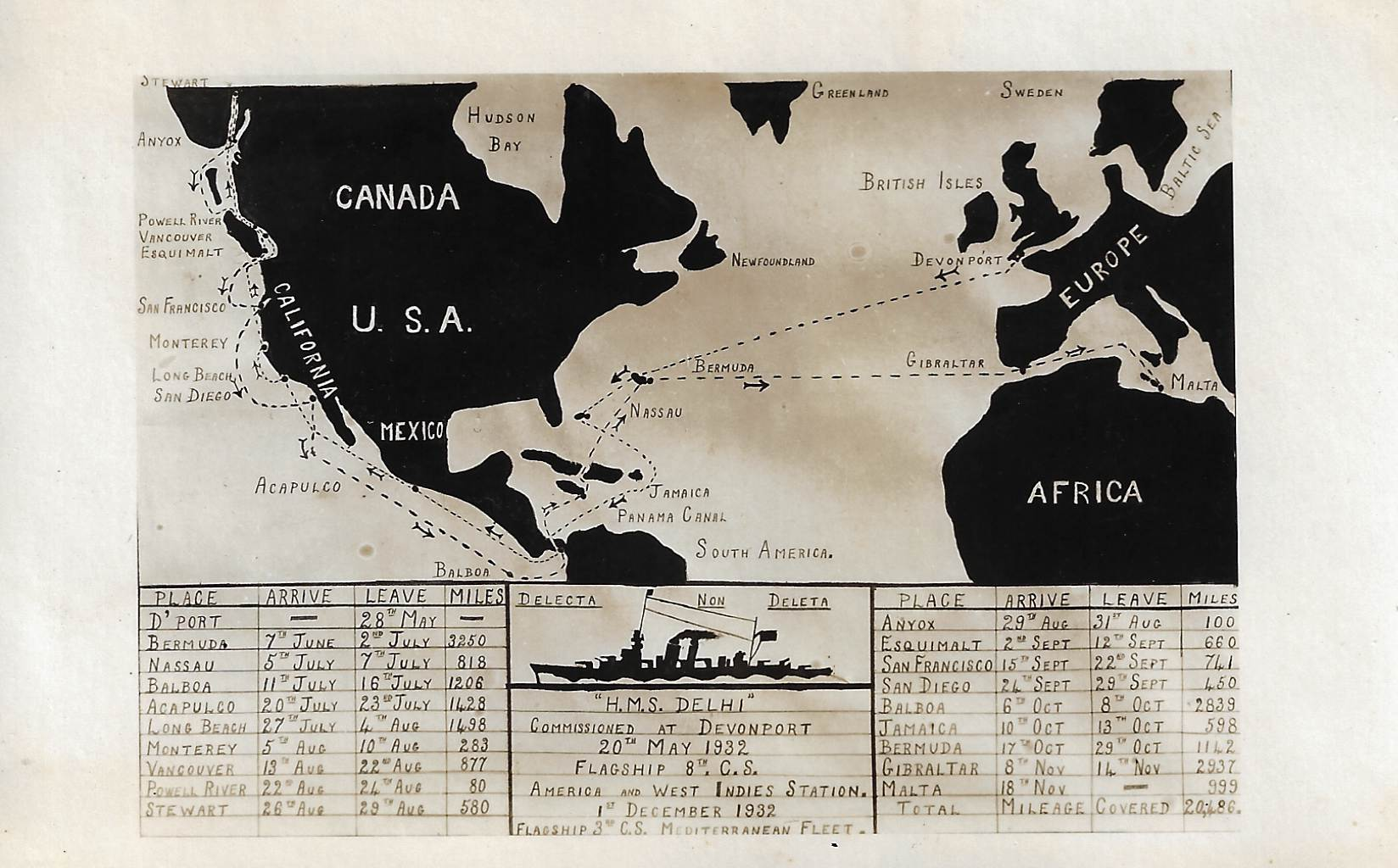 Historic voyage map from HMS Delhi log showing voyage from England to Canada and on to Malta in May 1932